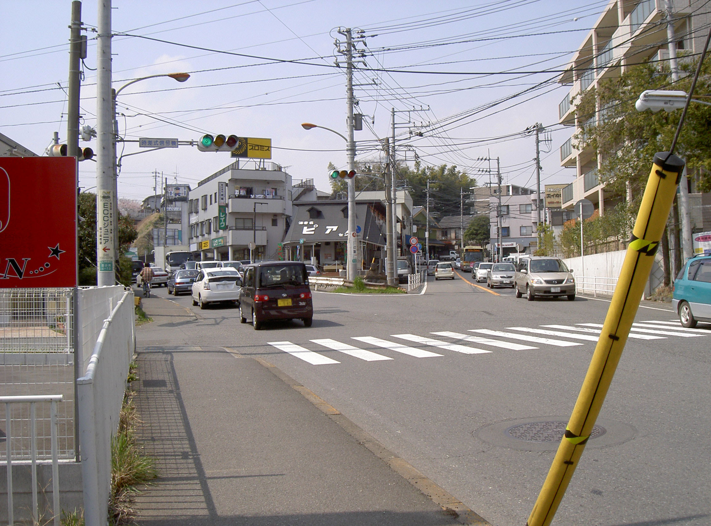 Kanagawa prefectural road route 40 in Ebina city ja: 神奈川県道40号横浜厚木線